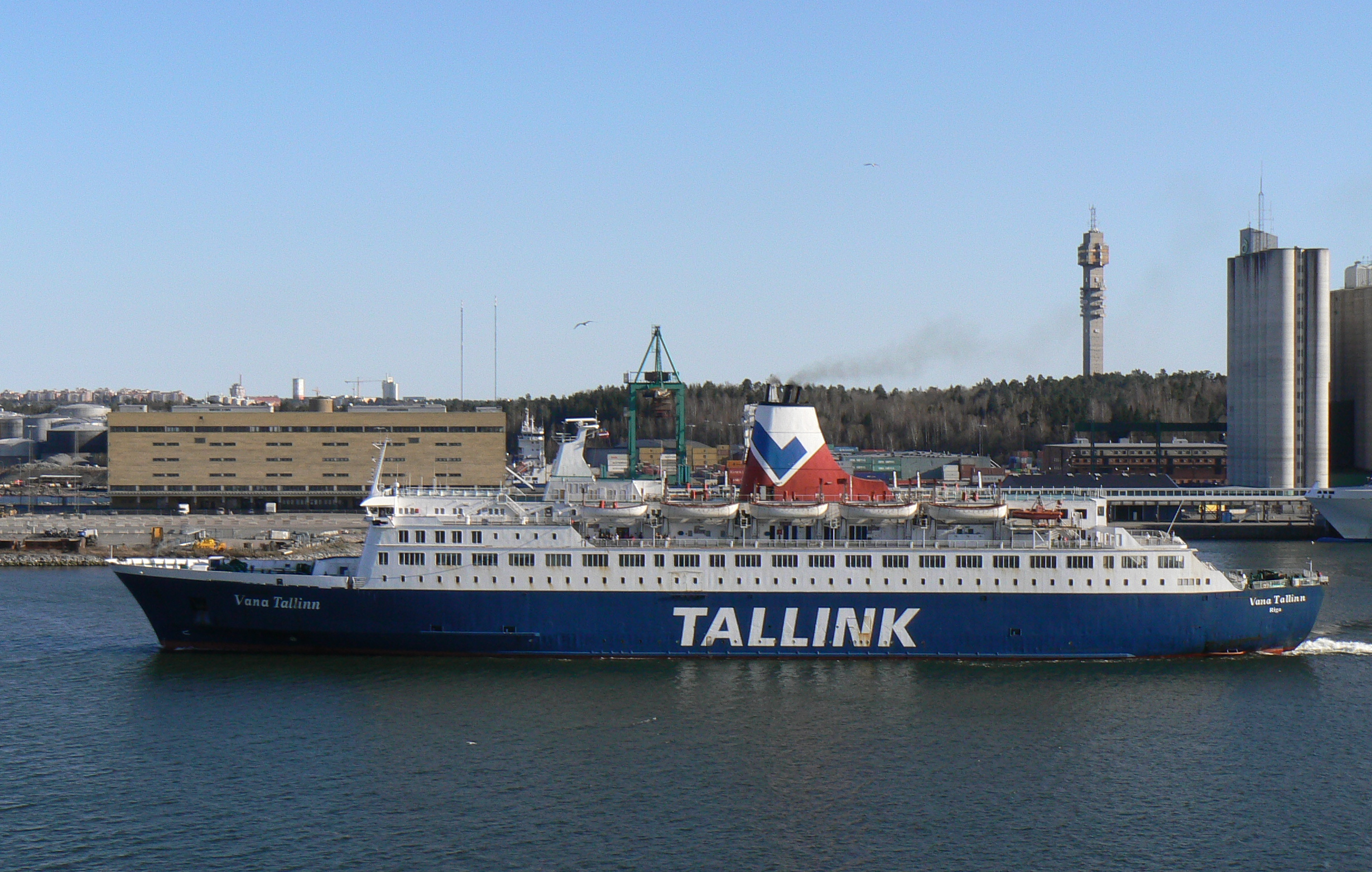 The M/S Vana Tallinn departing from Stockholm, Sweden in April 2008. IMO Number: 7329522 MMSI Number: 275295000 Callsign: YLBQ Length: 154 m Beam: 22 m